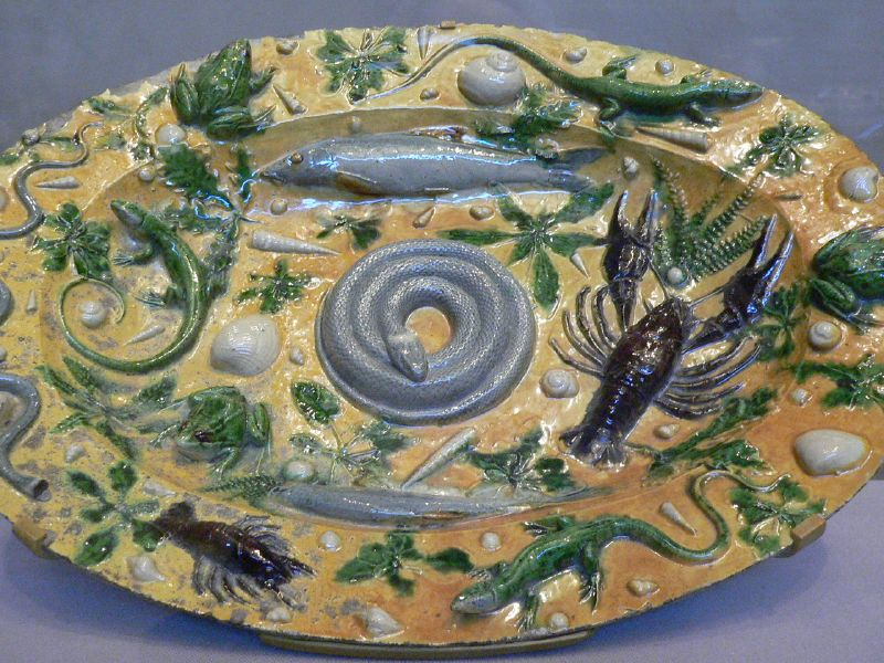 Palissy rusticware featuring casts of sea life French 1550.